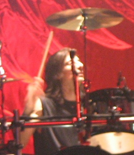 K. K. Downing and Scott Travis of Judas Priest.